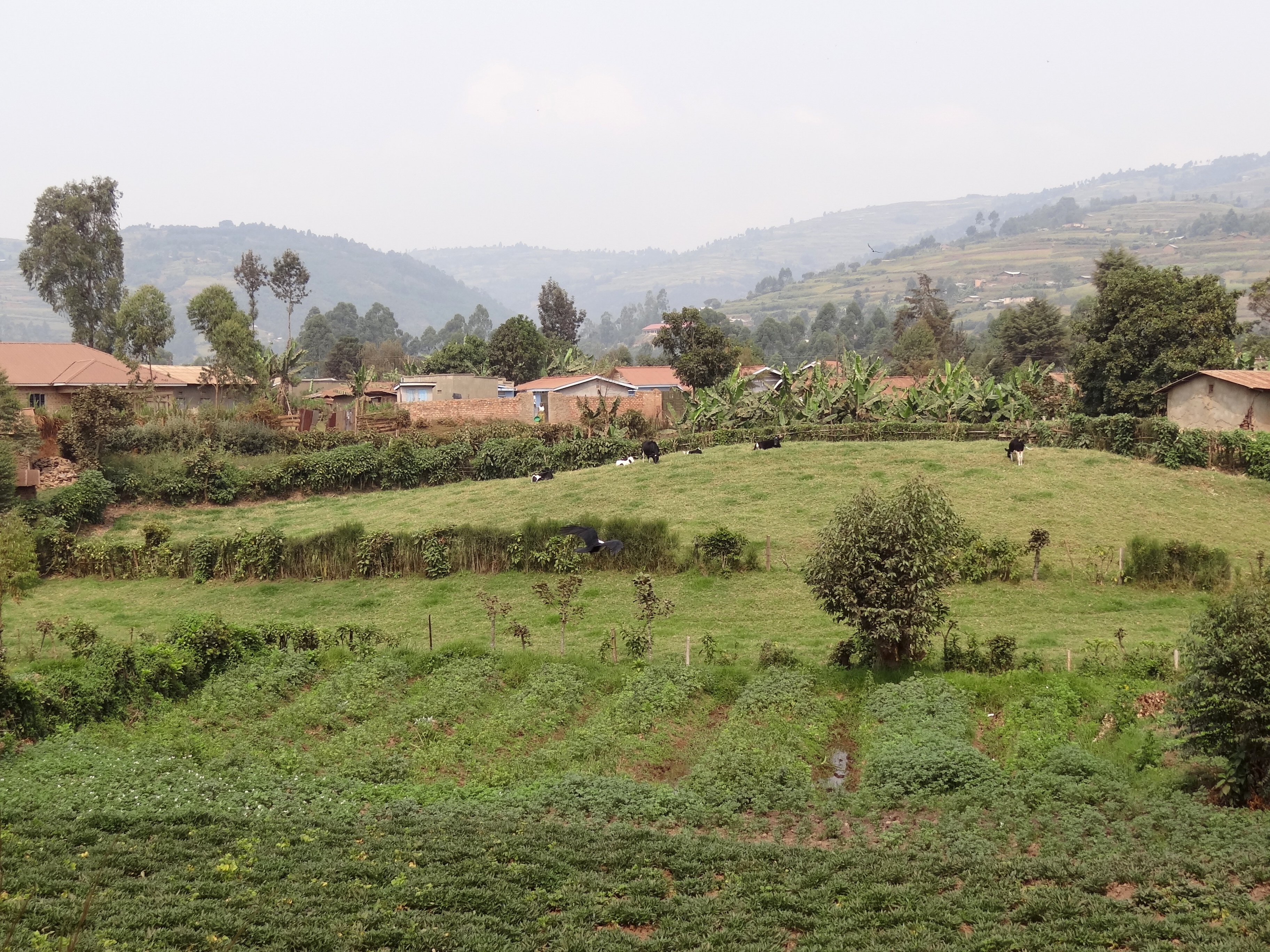 Countryside around Kabale - Southwestern Uganda - 02